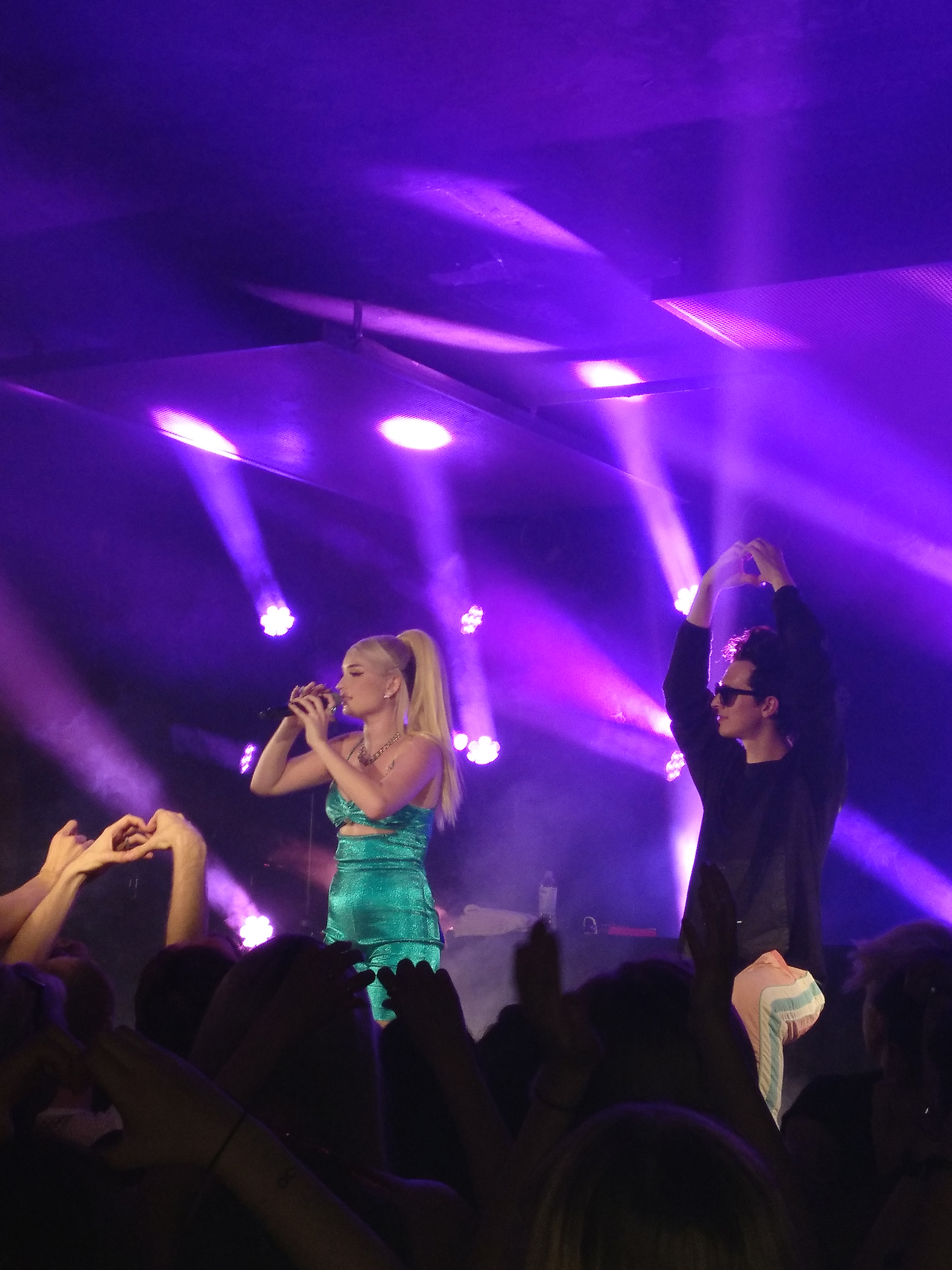 Kim Petras performing in Berlin at Bi Nuu during her Clarity Tour in 2019 sporting the last of three outfits that were worn during the concerts of this tour. Next to her is her frequent callaborator Aaron Joseph.